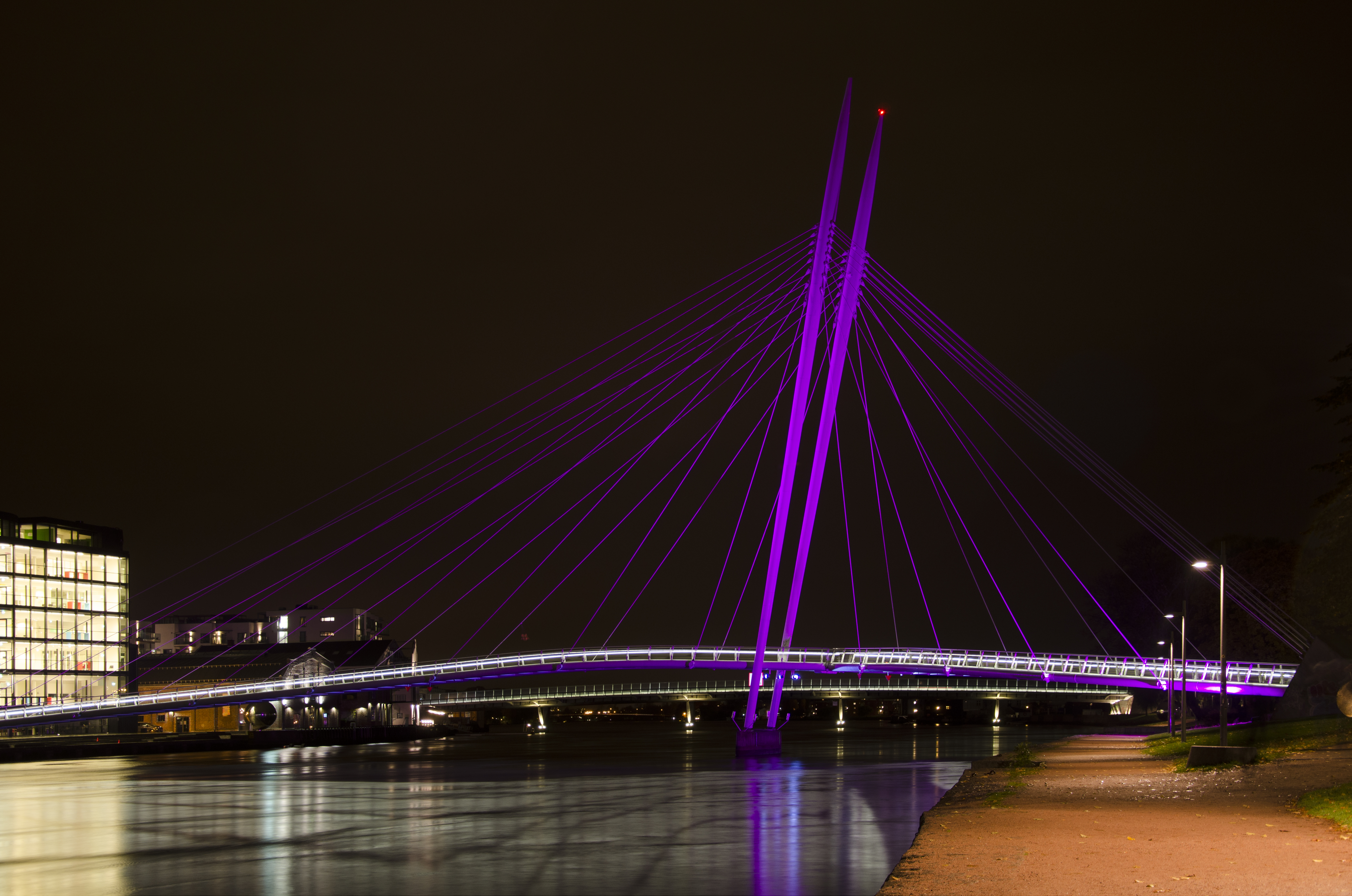 The Ypsilon pedestrian bridge in Drammen, illuminated in pink as part of the Pink Ribbon campaign in October 2017.